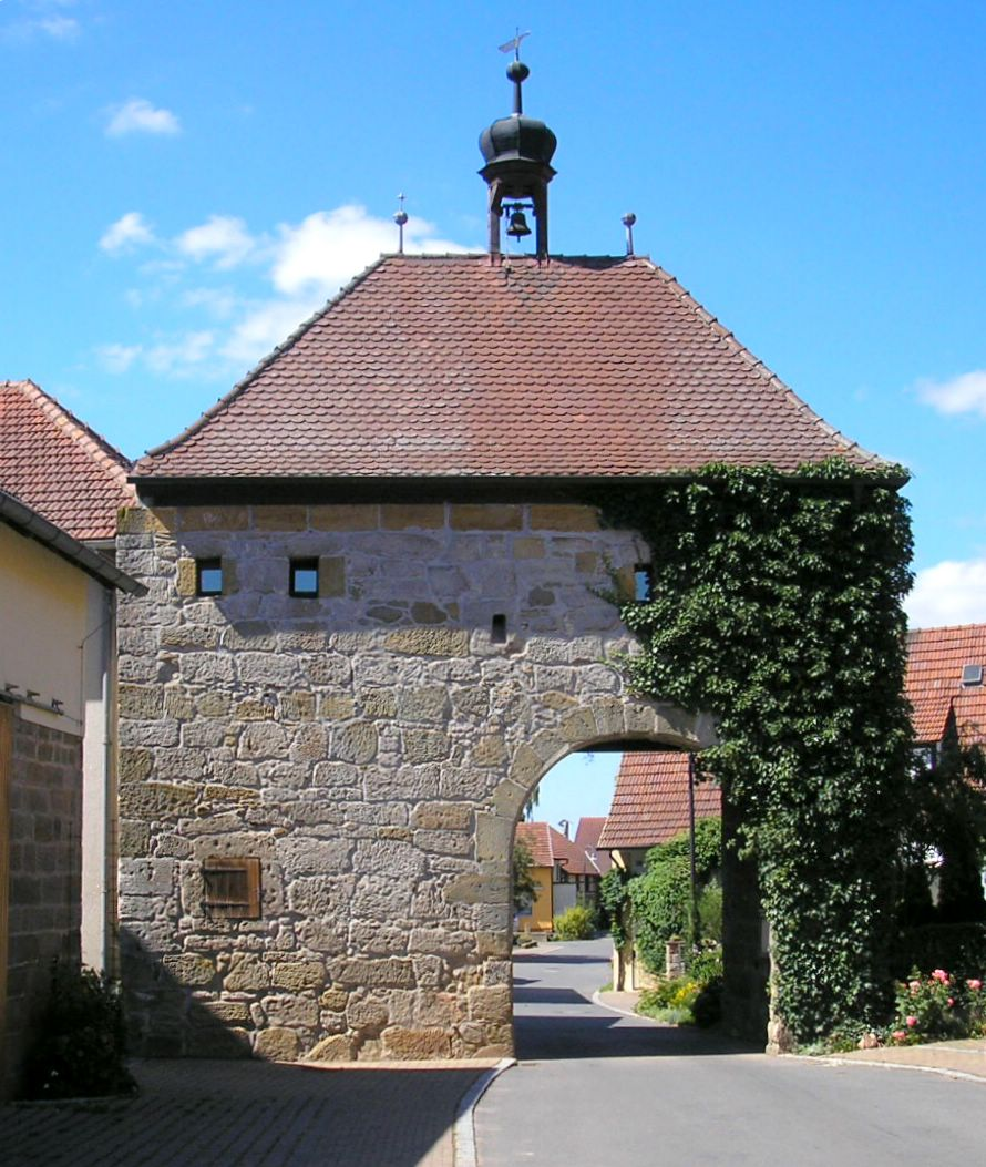 Treinfeld (Markt Rentweinsdorf, Landkreis Haßberge, Lower Franconia, Germany). Historic gatehouse (1551)